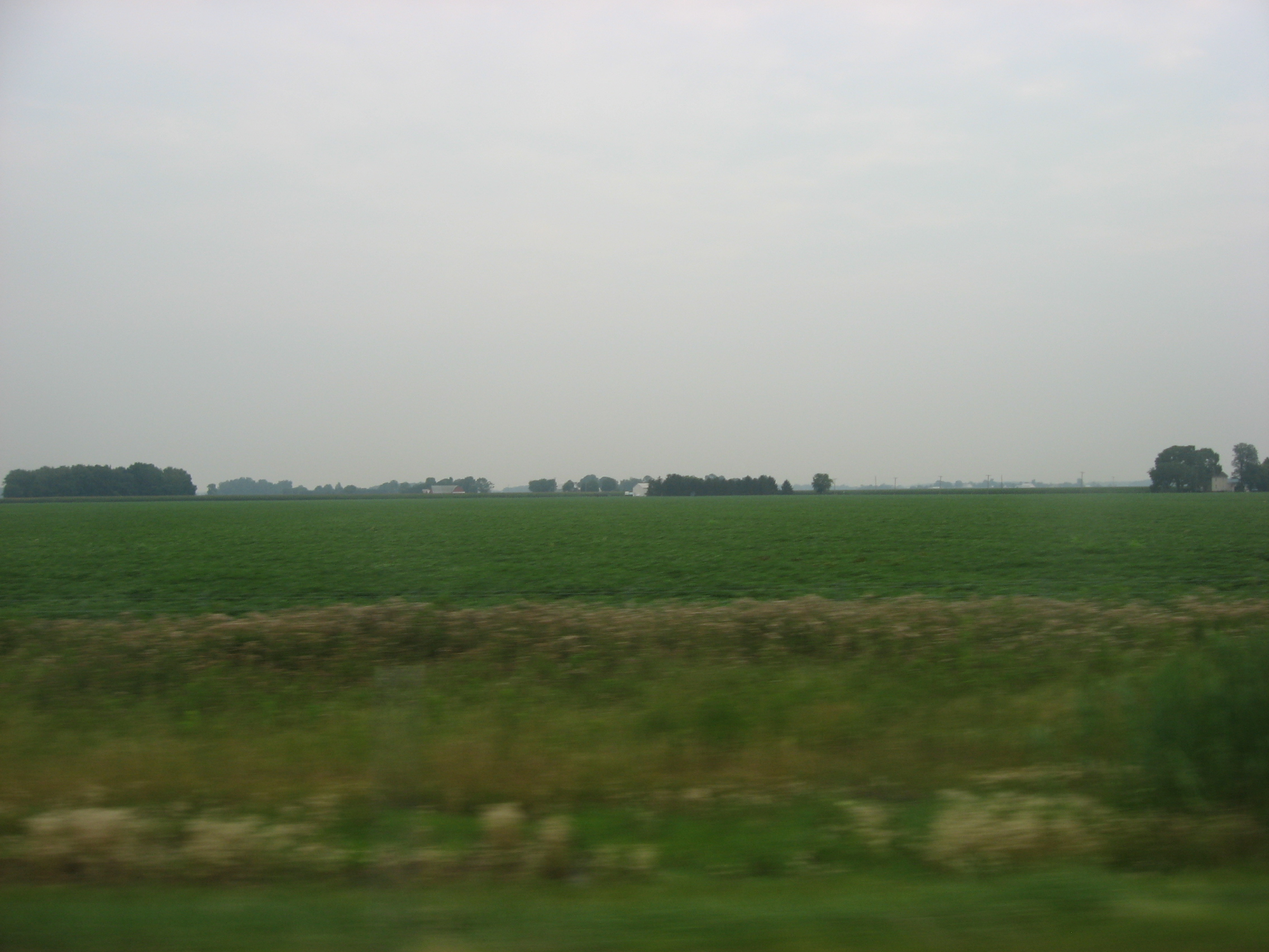 Broad farm fields in northeastern Washington Township, Sandusky County, Ohio, United States. Picture taken looking northward from the concurrent Interstates 80/90 (the Ohio Turnpike).